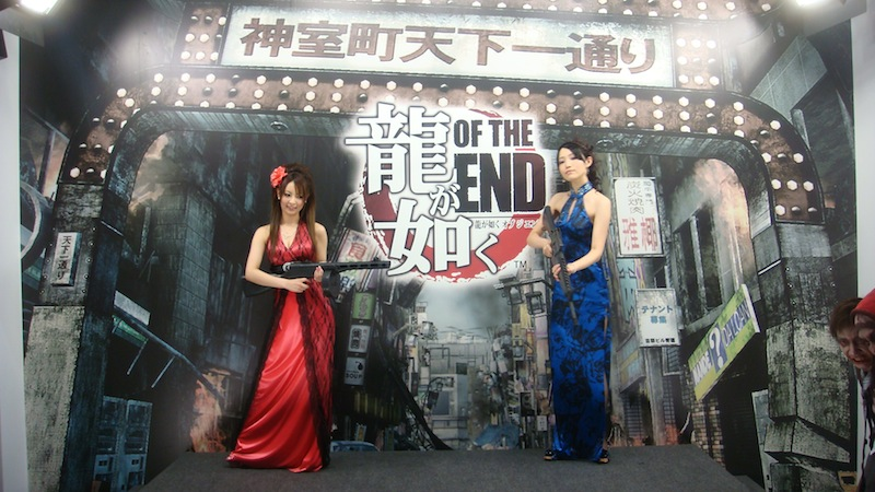 Yakuza game by sega for ps3 promotional event. Yakuza video game, 2 women holding guns.